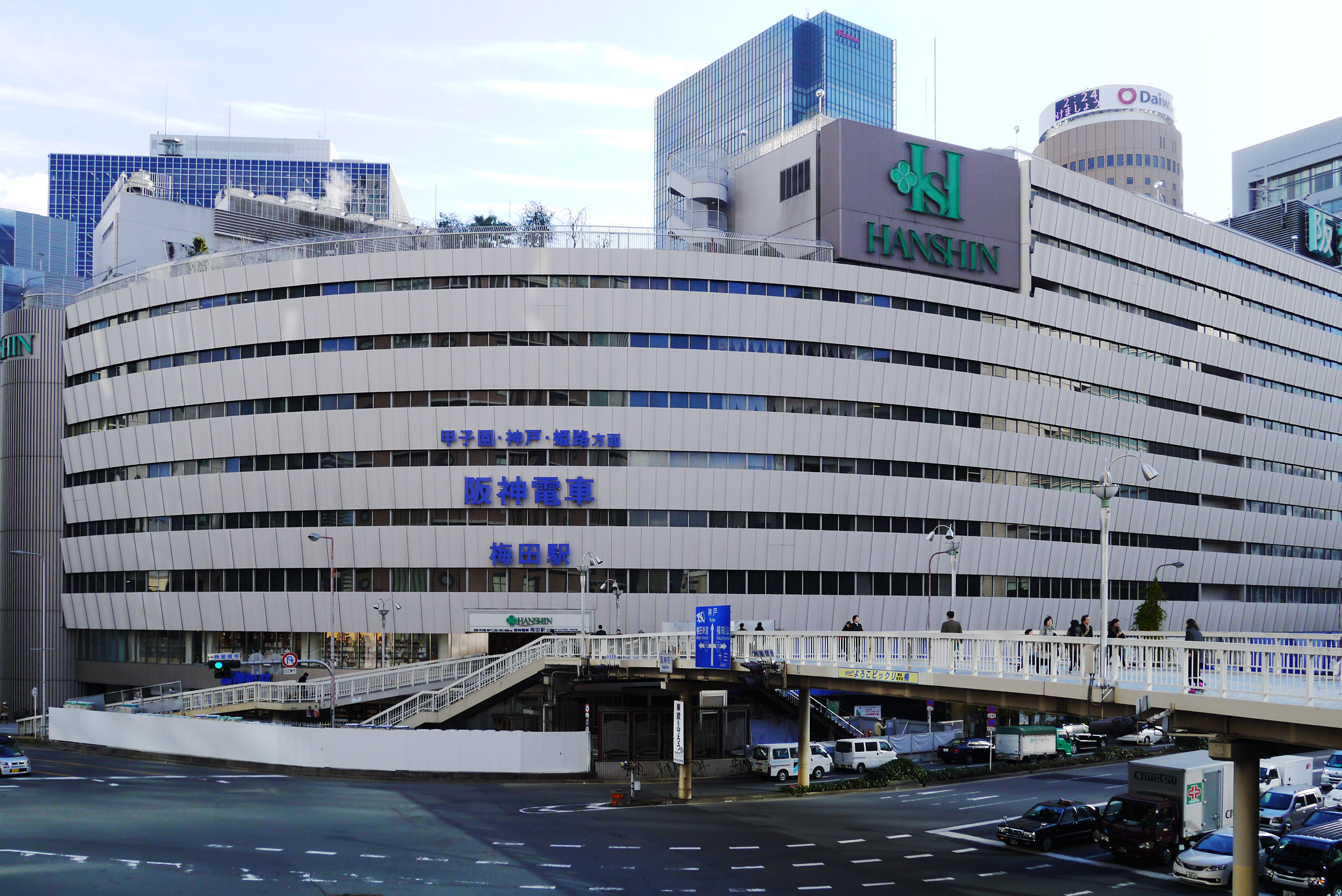 Hanshin Department Stores Umeda main store (阪神百貨店梅田本店), Osaka, Osaka prefecture, Japan